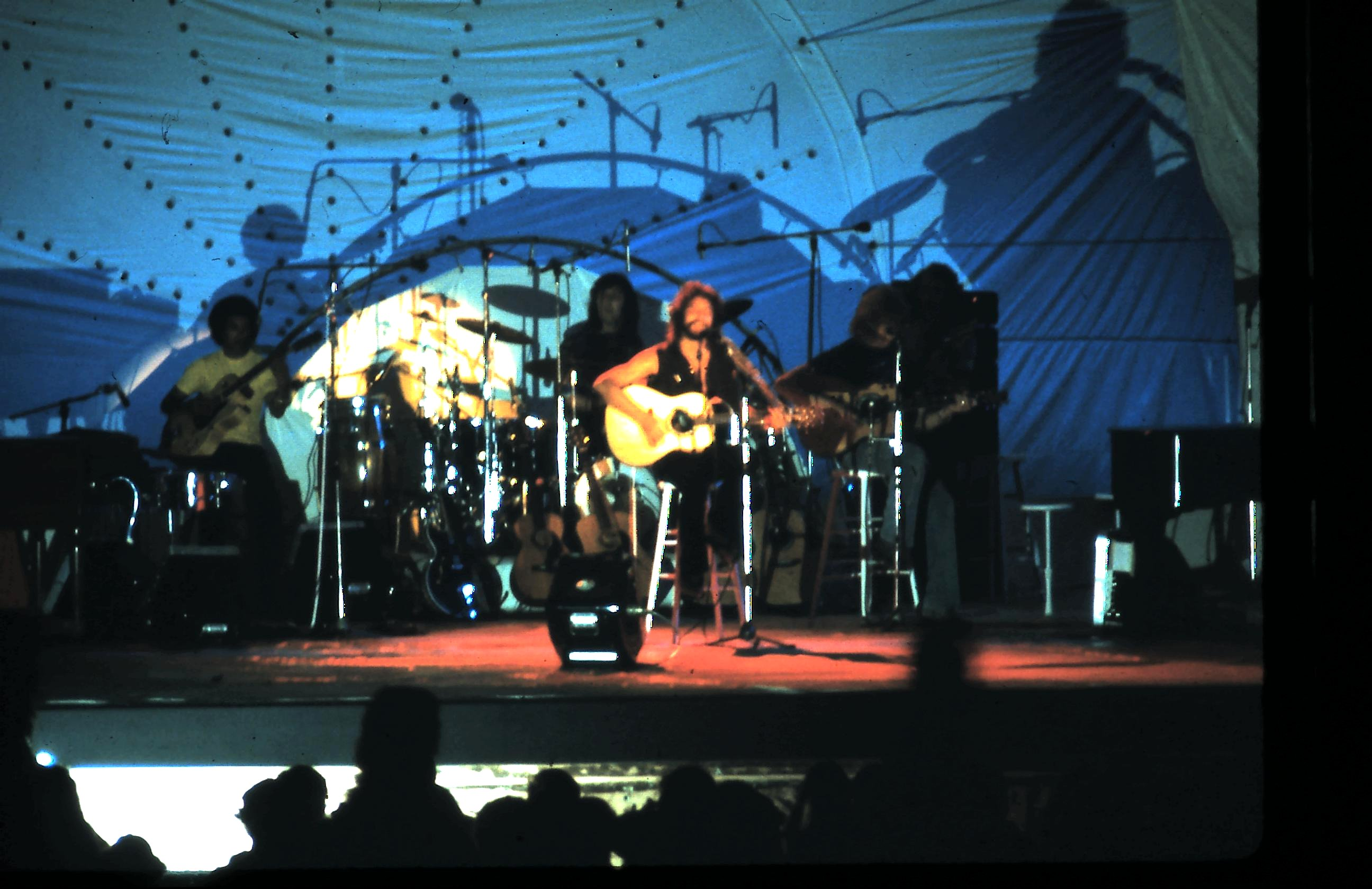 Cat Stevens in concert in Waikiki Shell, Oahu, Hawaii, 1974